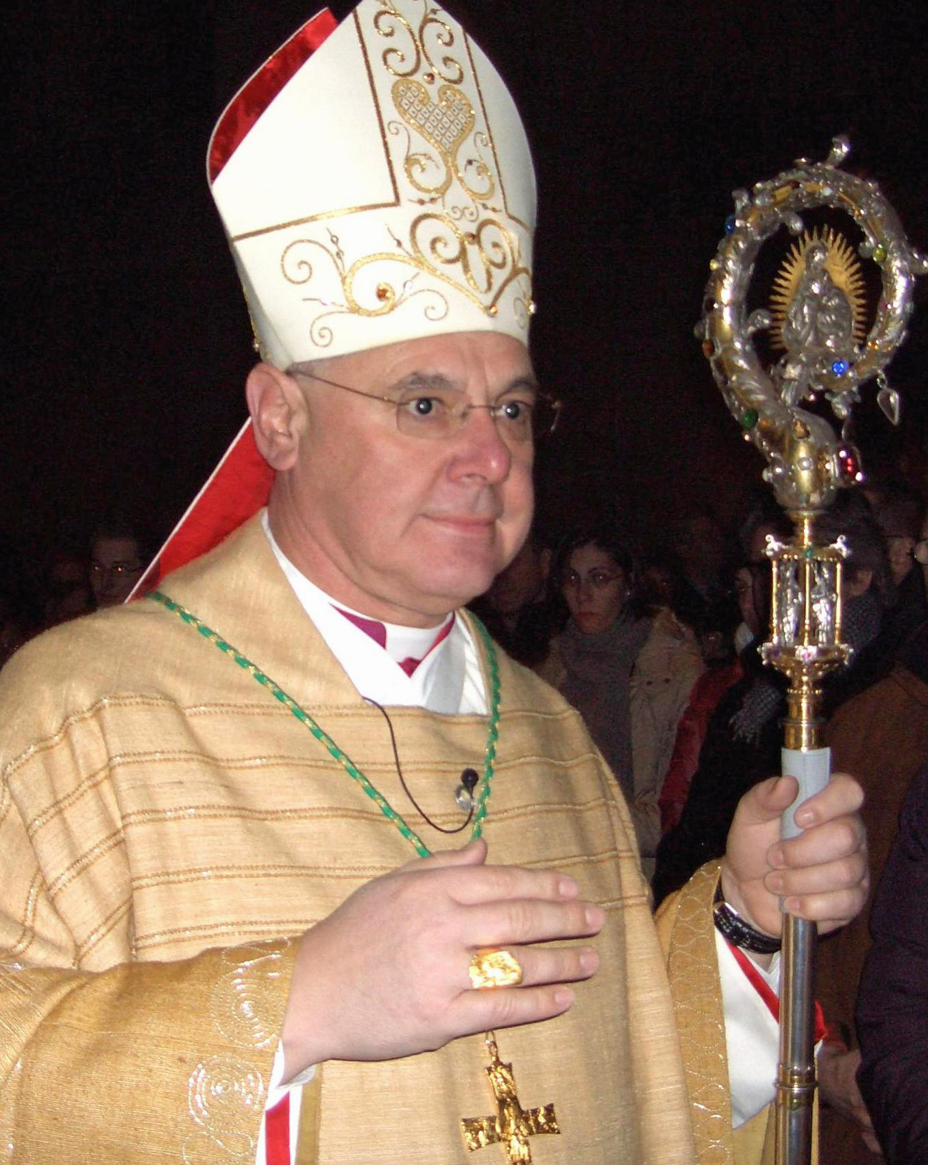 Gerhard Ludwig Müller (* 1947) Bishop of Regensburg (Germany) Date: 24th Dec 2006 (Christmas Night Mass at Regensburg Cathedral)